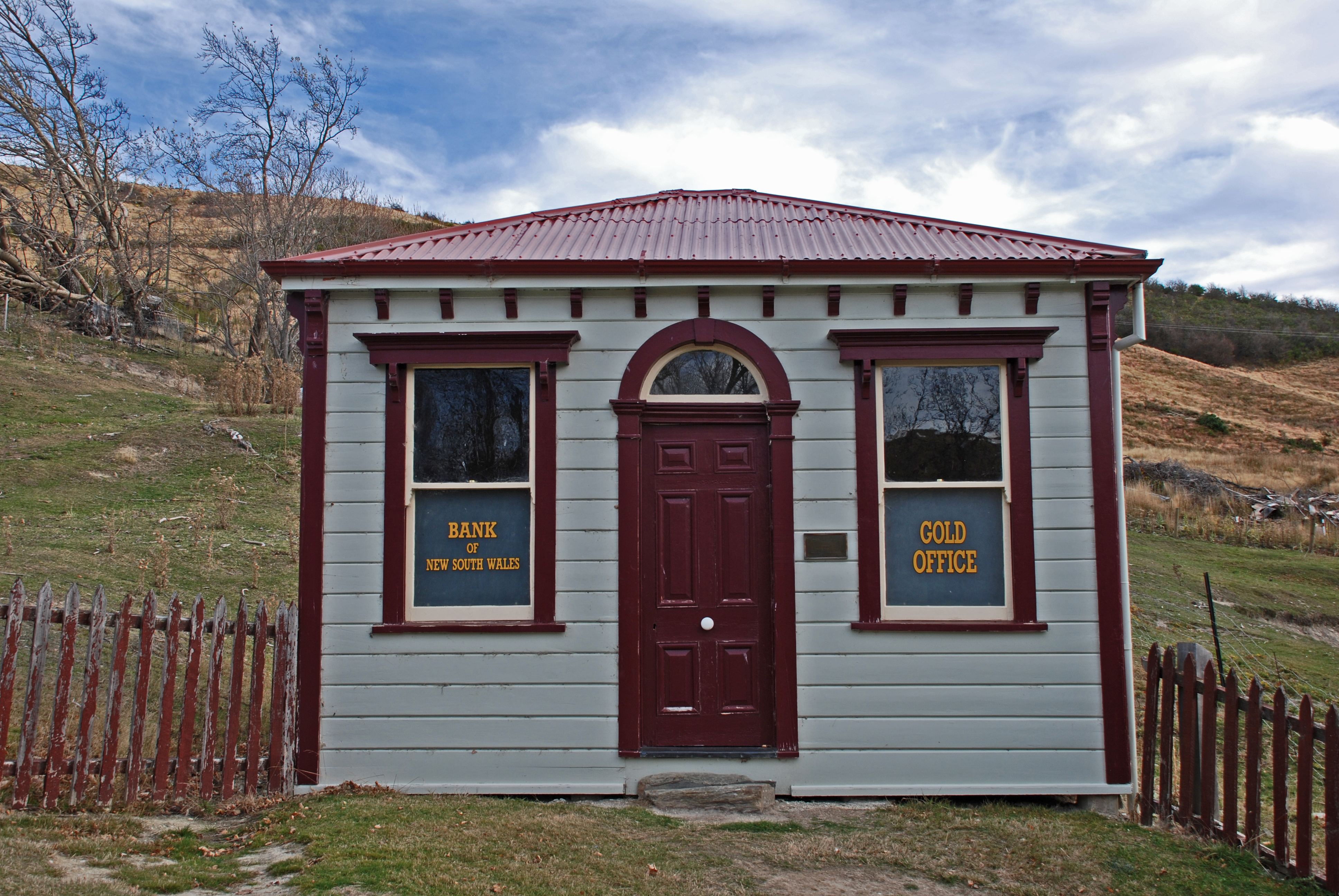 Gold office, St. Bathan's, Otago, New Zealand, May 2007